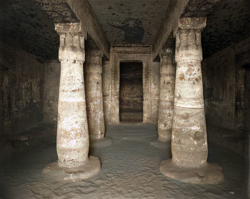 The Abuhoda (Abu Oda) temple at the beginning of the 20th century, colourized. The temple served as a church from the 6th or 7th century.